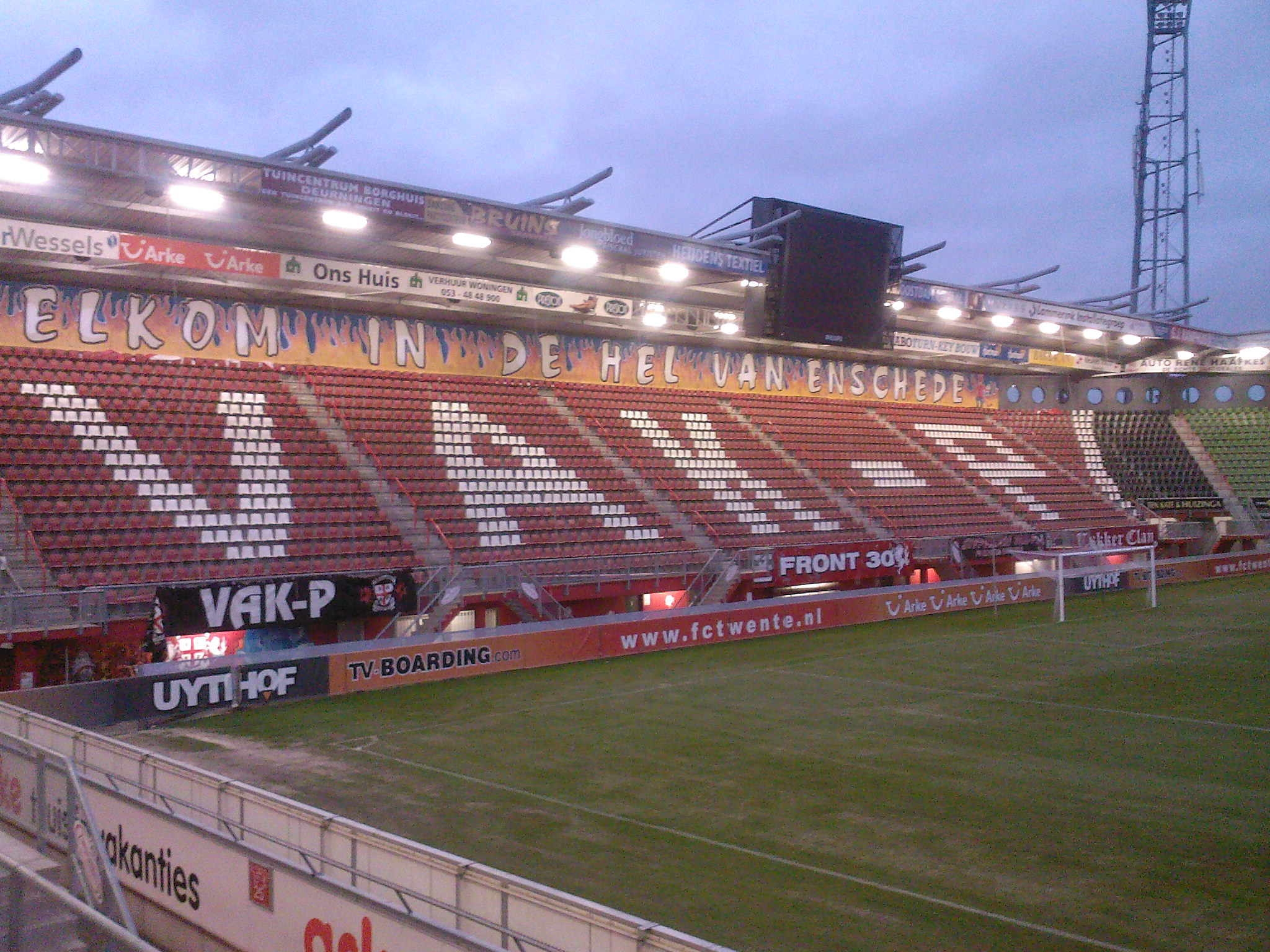 Vak P side of De Grolsch Veste in Enschede (before the expansion)